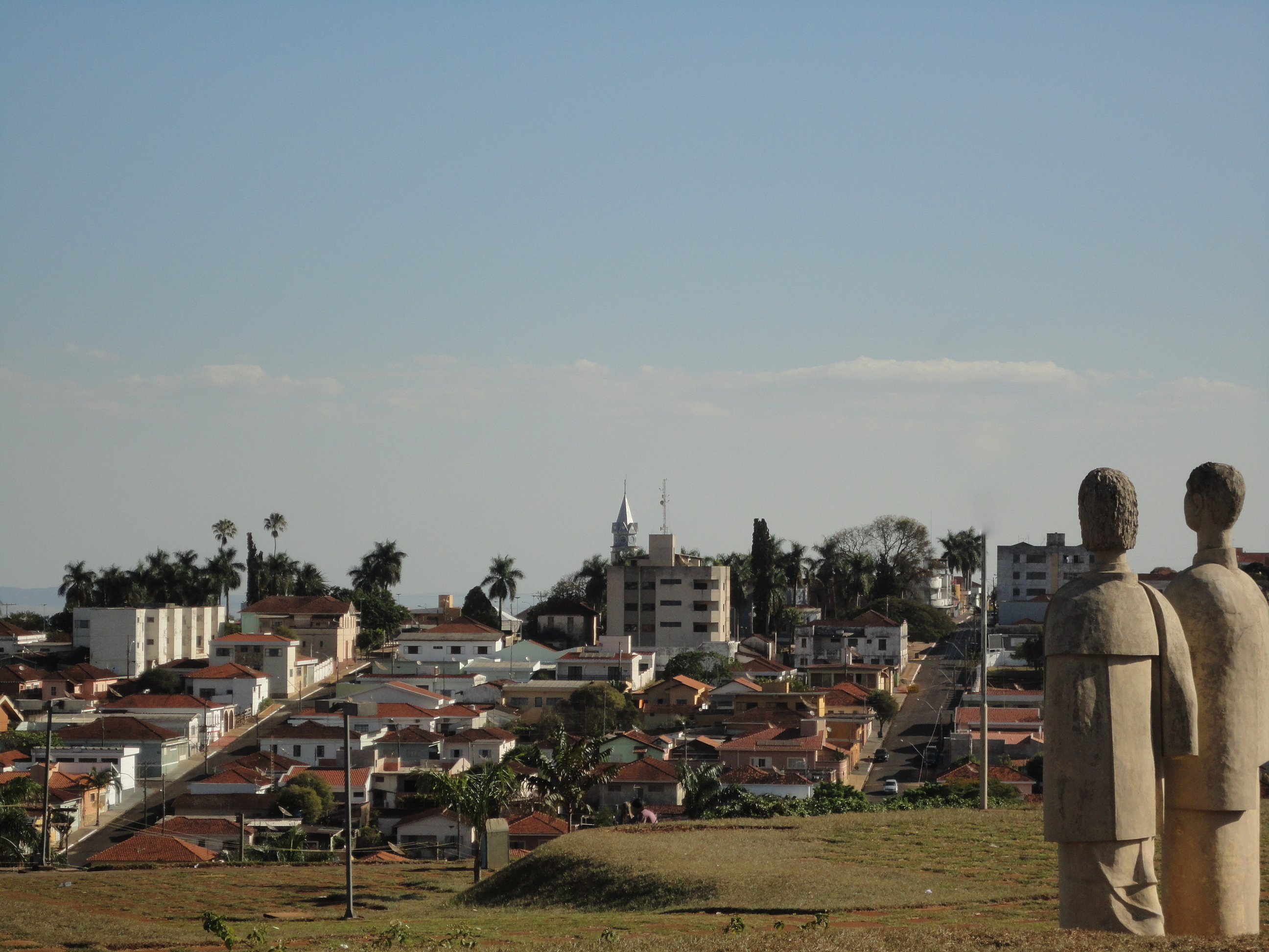 General view of the city of Altinopolis, from the Sculpture Square